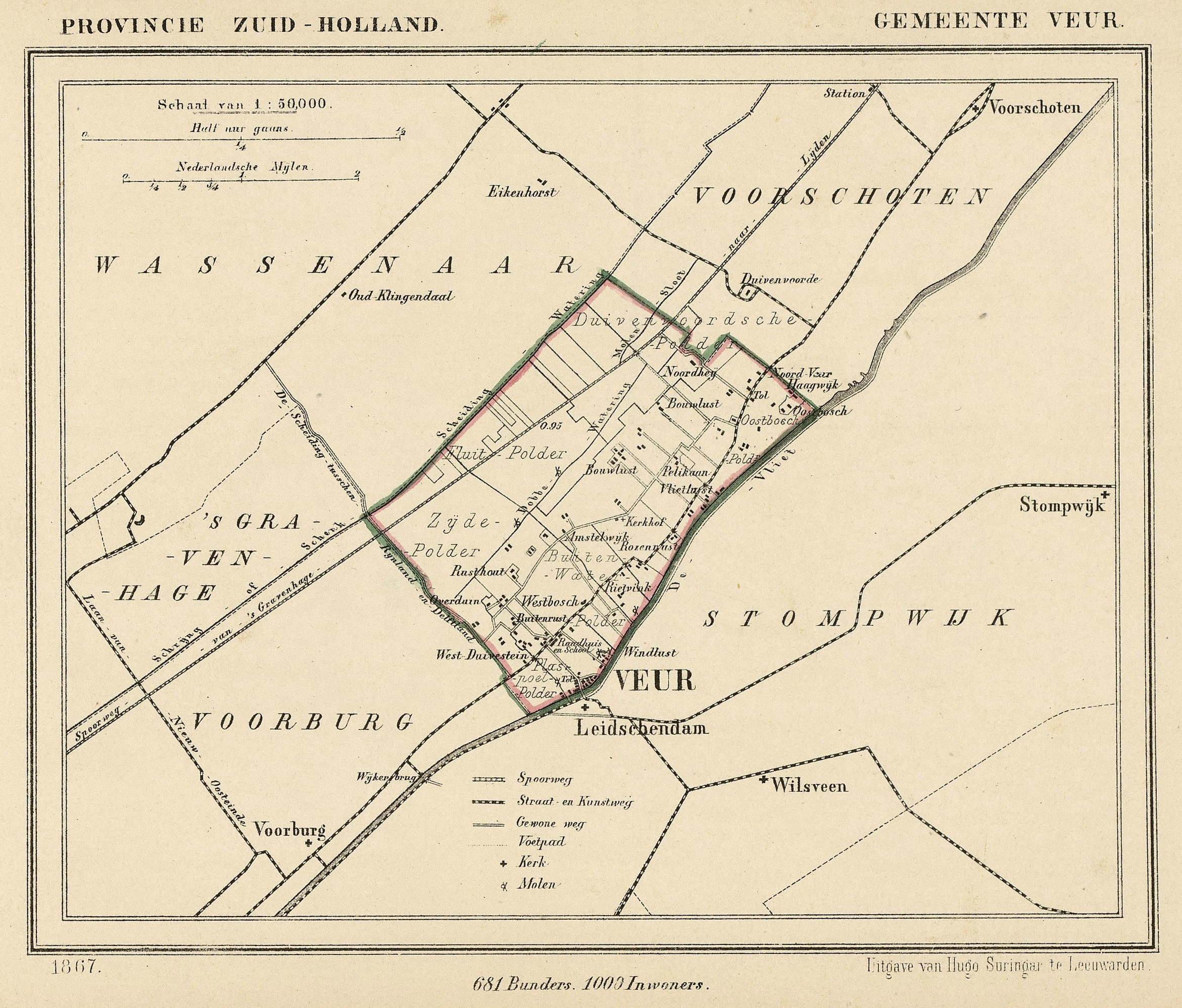 Map from 1867 of the former municipality of Veur (Province of South Holland, Netherlands). In 1938 Veur merged with the municipality of Stompwijk to form Leidschendam.